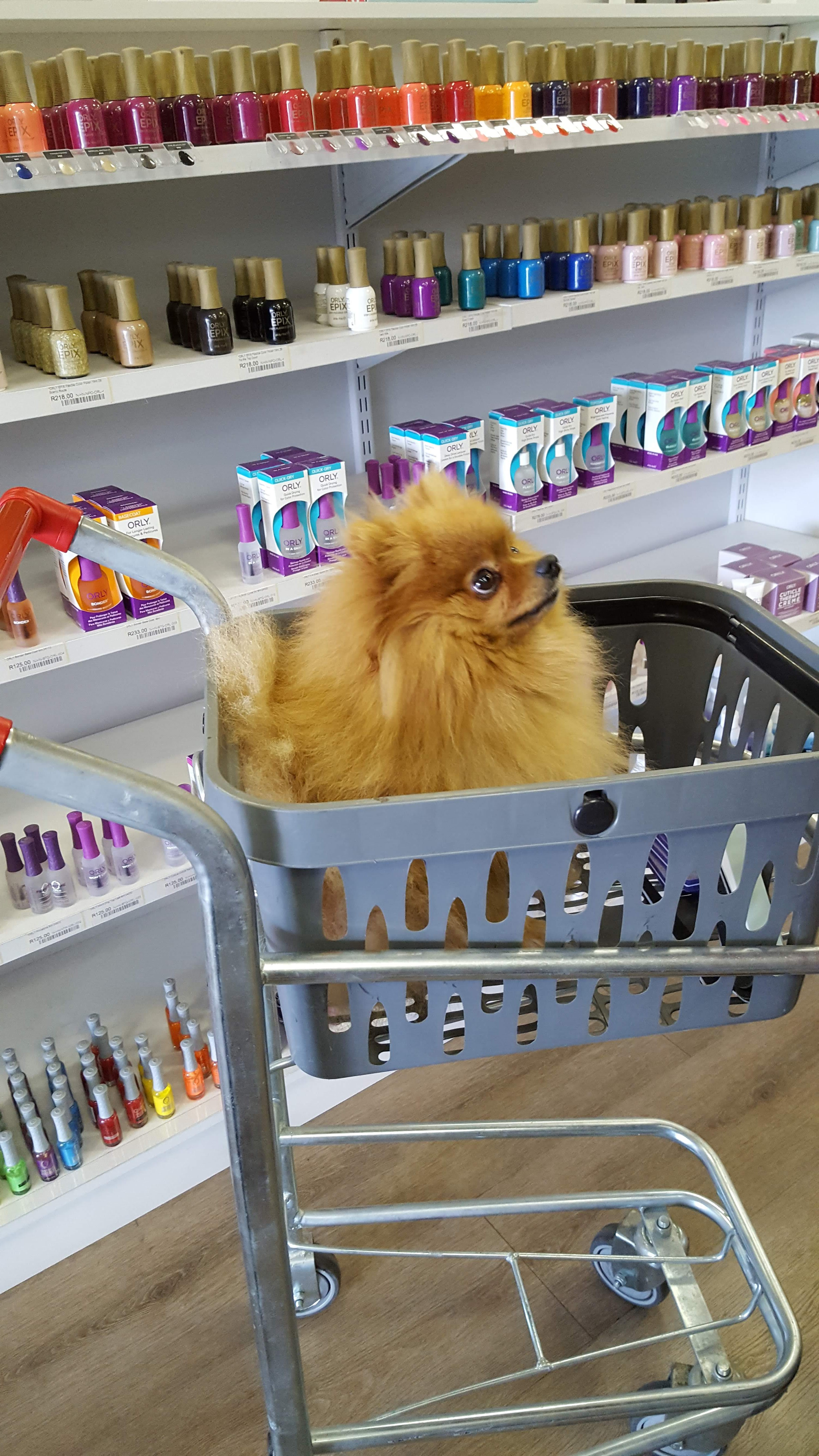 Our Pomeranian Dog loves to travel in style when his mom looks for cosmetics. This is an image with the theme "Africa on the Move or Transport" from: South Africa